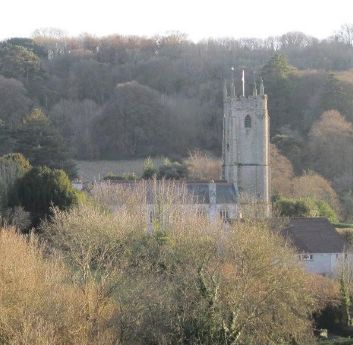 Church of St Mary's, Tamerton Foliot, Devon. Viewed from north.